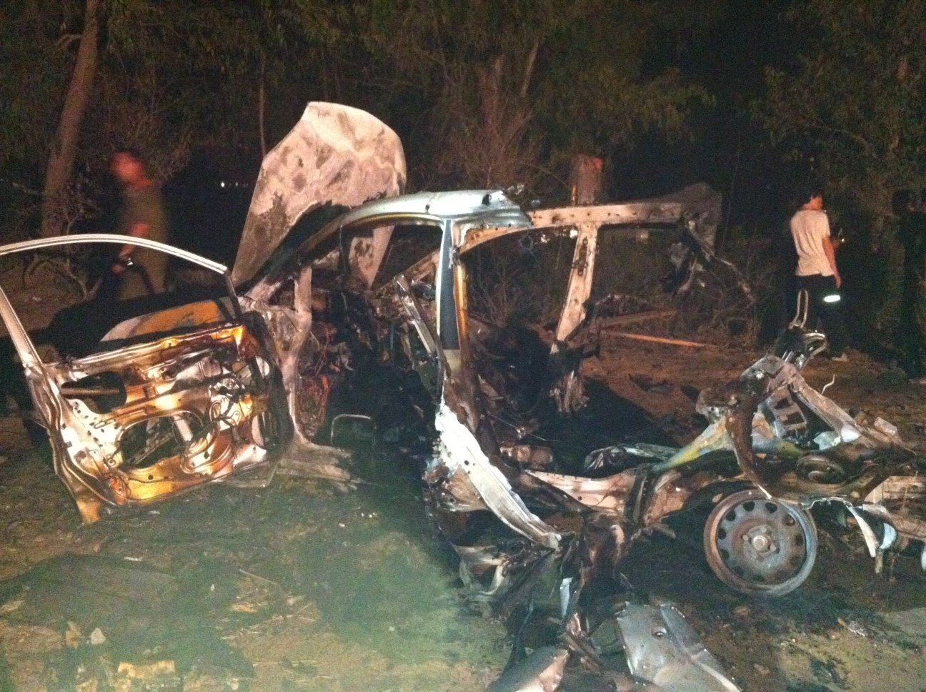 A car hit by a rocket shot by Hamas.